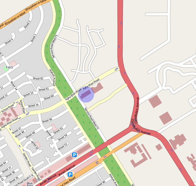 A map of the area around the Marriott Hotel in Islamabad